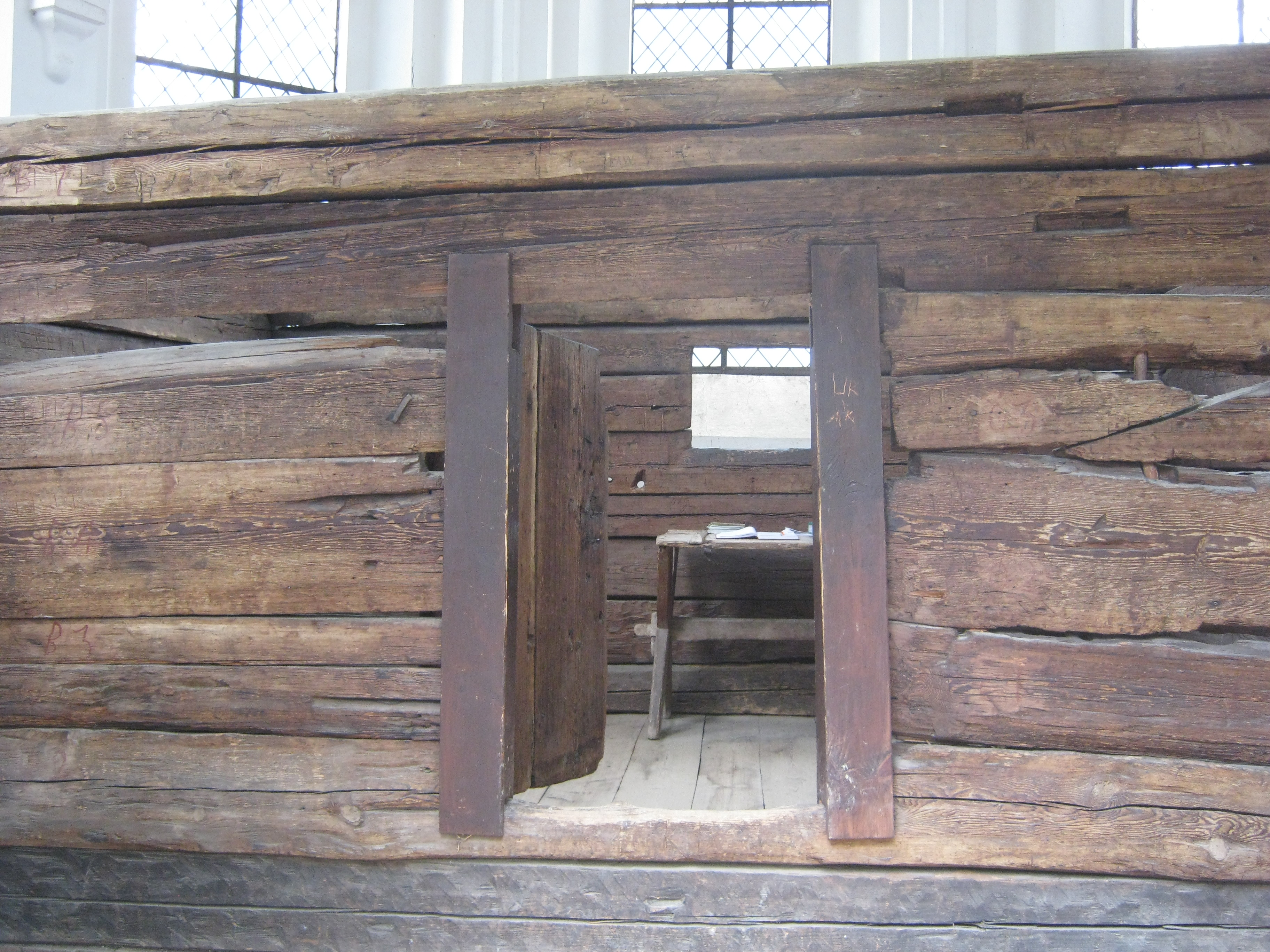 St. Henry's Chapel, Kokemäki, Finland.